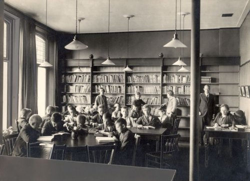 Reading room Public Library in Groningen, the Netherlands